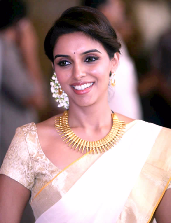 Asin welcomes Onam in Mumbai